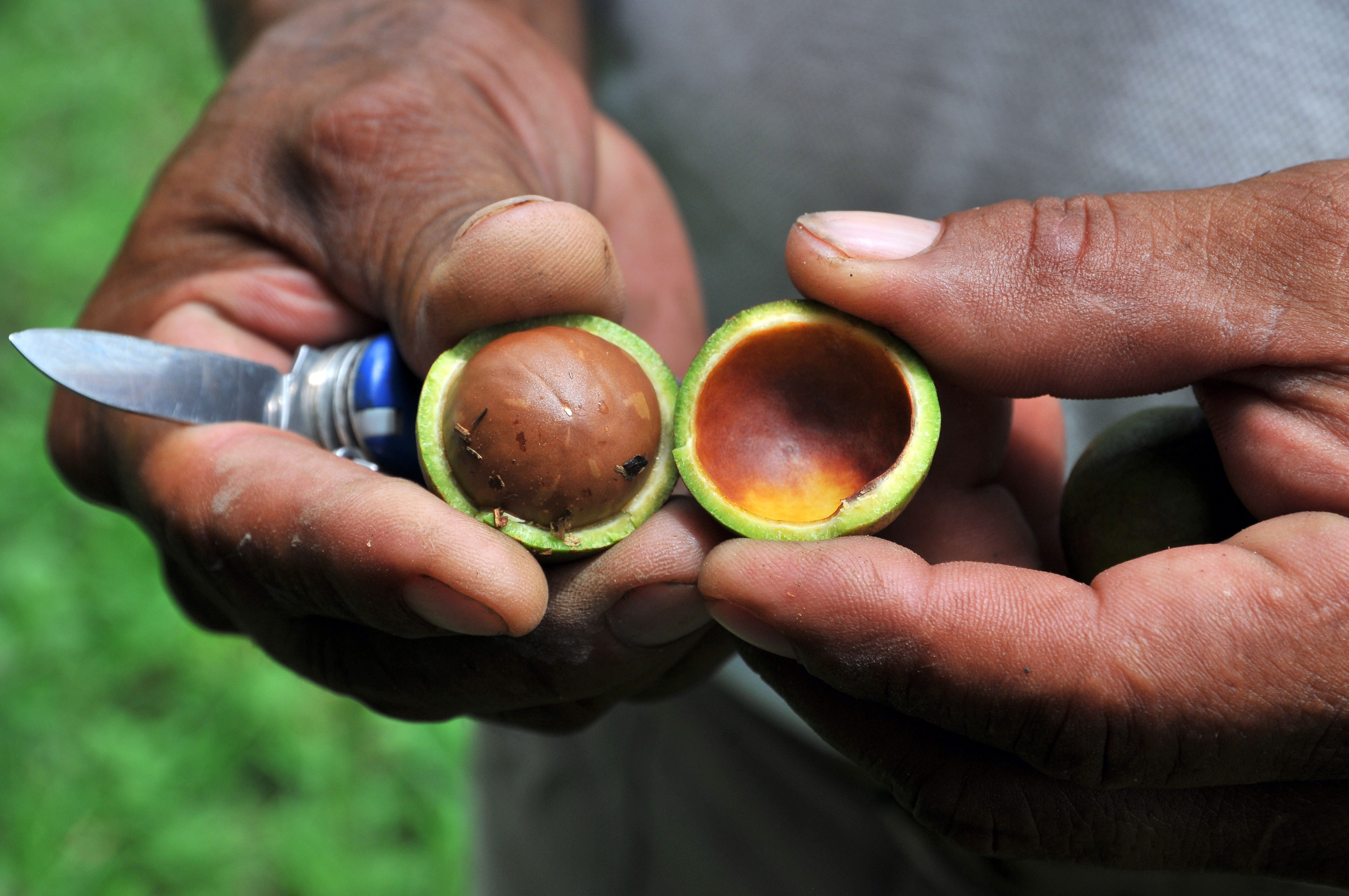 Pic by Neil Palmer (CIAT). Santa Cuz, Bolivia.